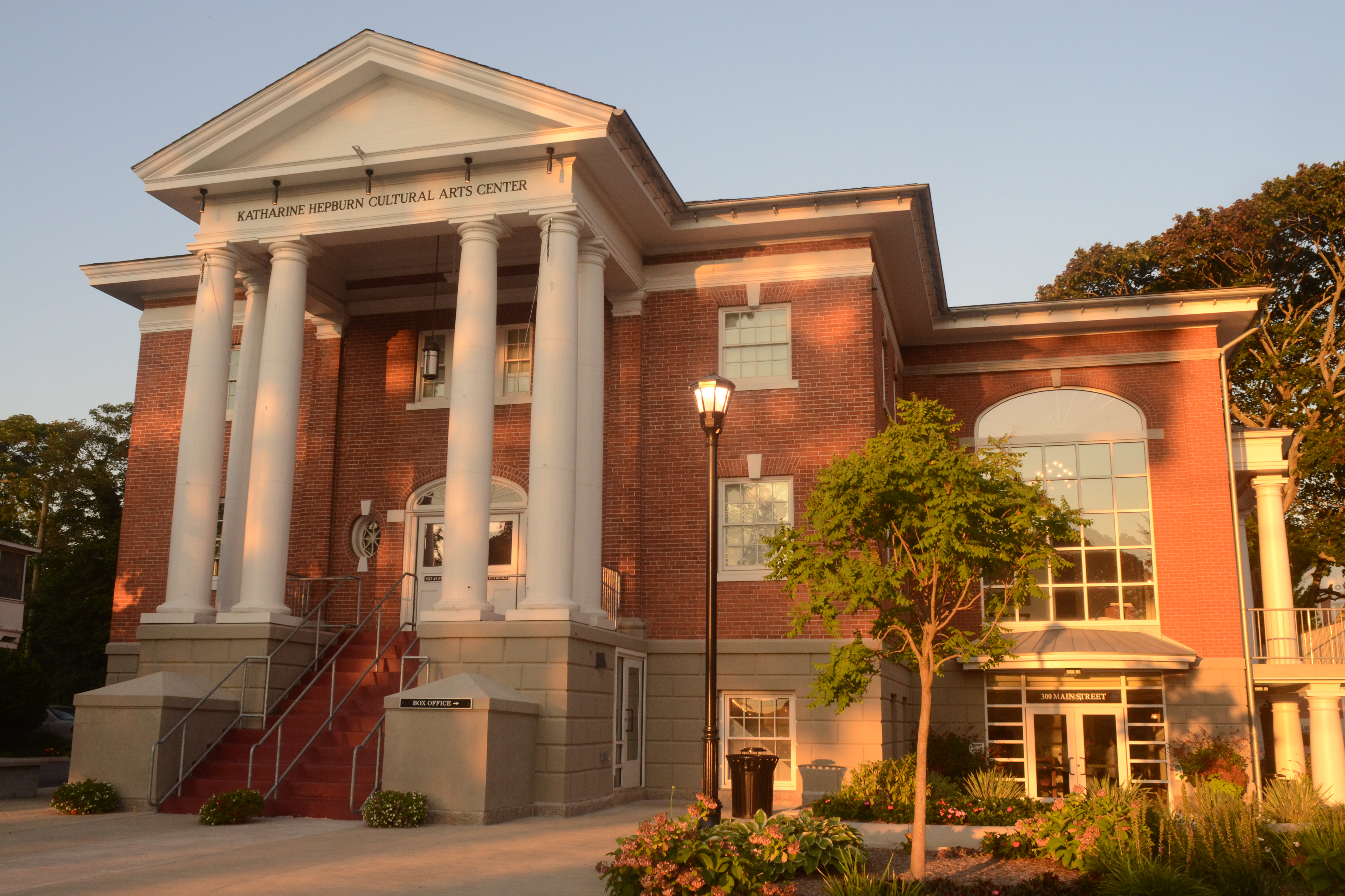 The Katharine Hepburn Cultural Arts Center in 2011, after construction was completed